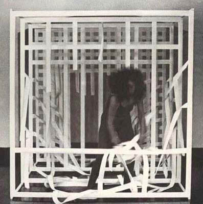 Photography